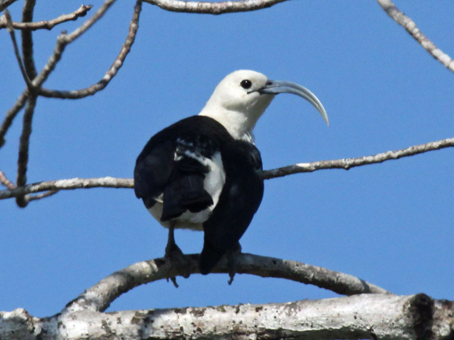 Sickle-billed Vanga (Falculea palliata). Photographed in Madagascar.